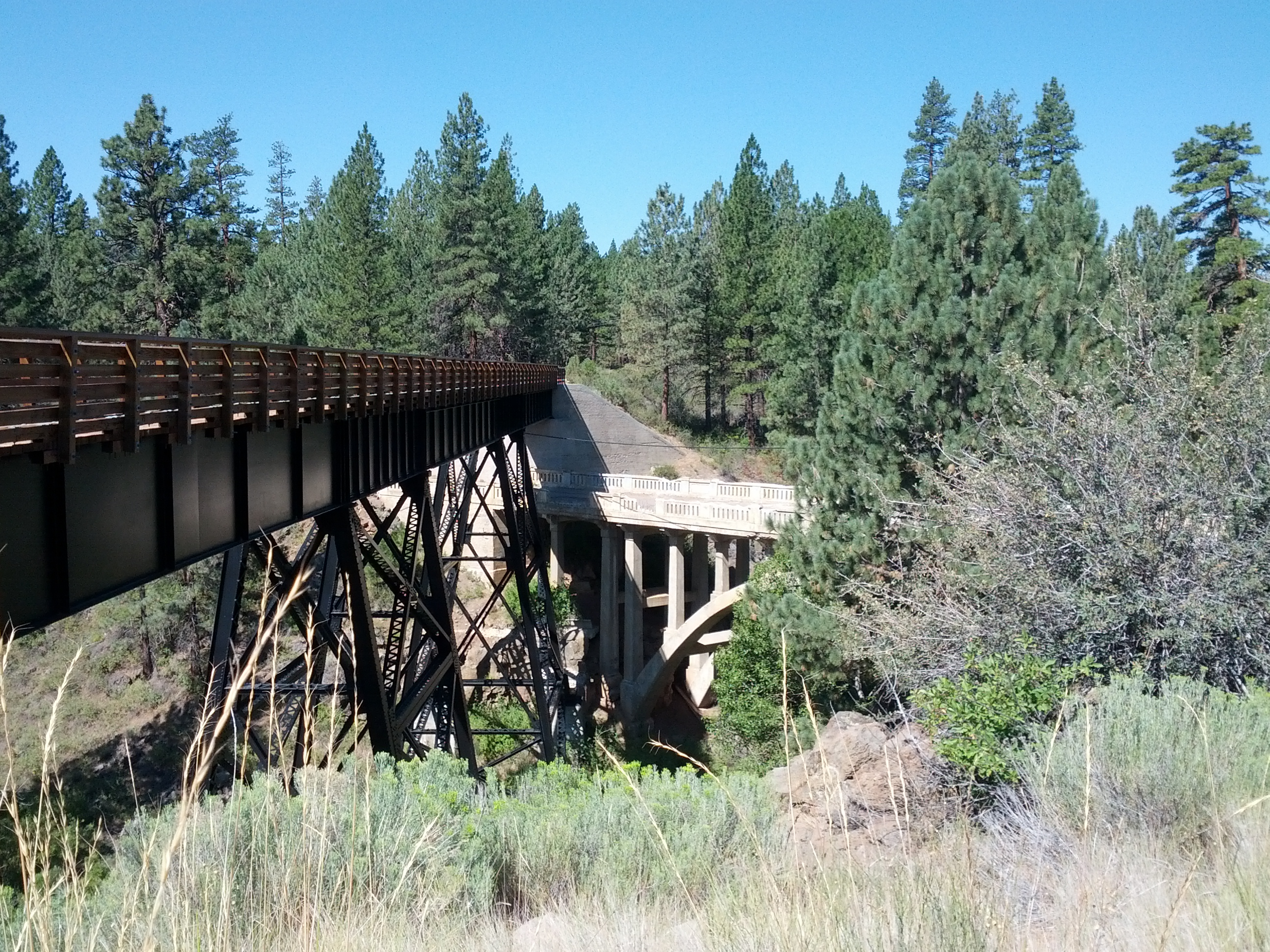 This picture was taken after the 7-mile marker along the Bizz Johnson trail